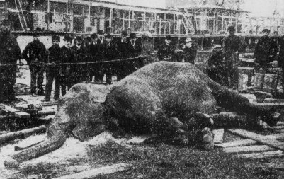 Topsy (the elephant) electrocuted in Coney Island